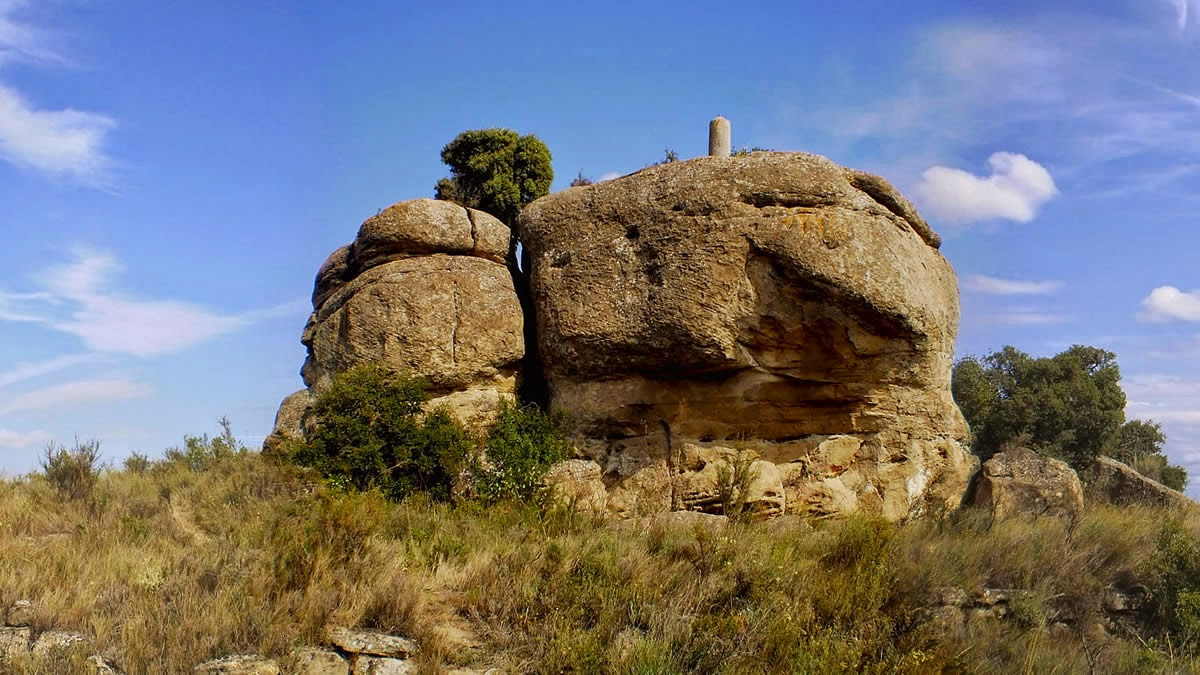 Boulder situated in the meander of Tondonia in the municipality of Haro, La Rioja, Spain, which is suspected to contain a Celtiberian Sanctuary.